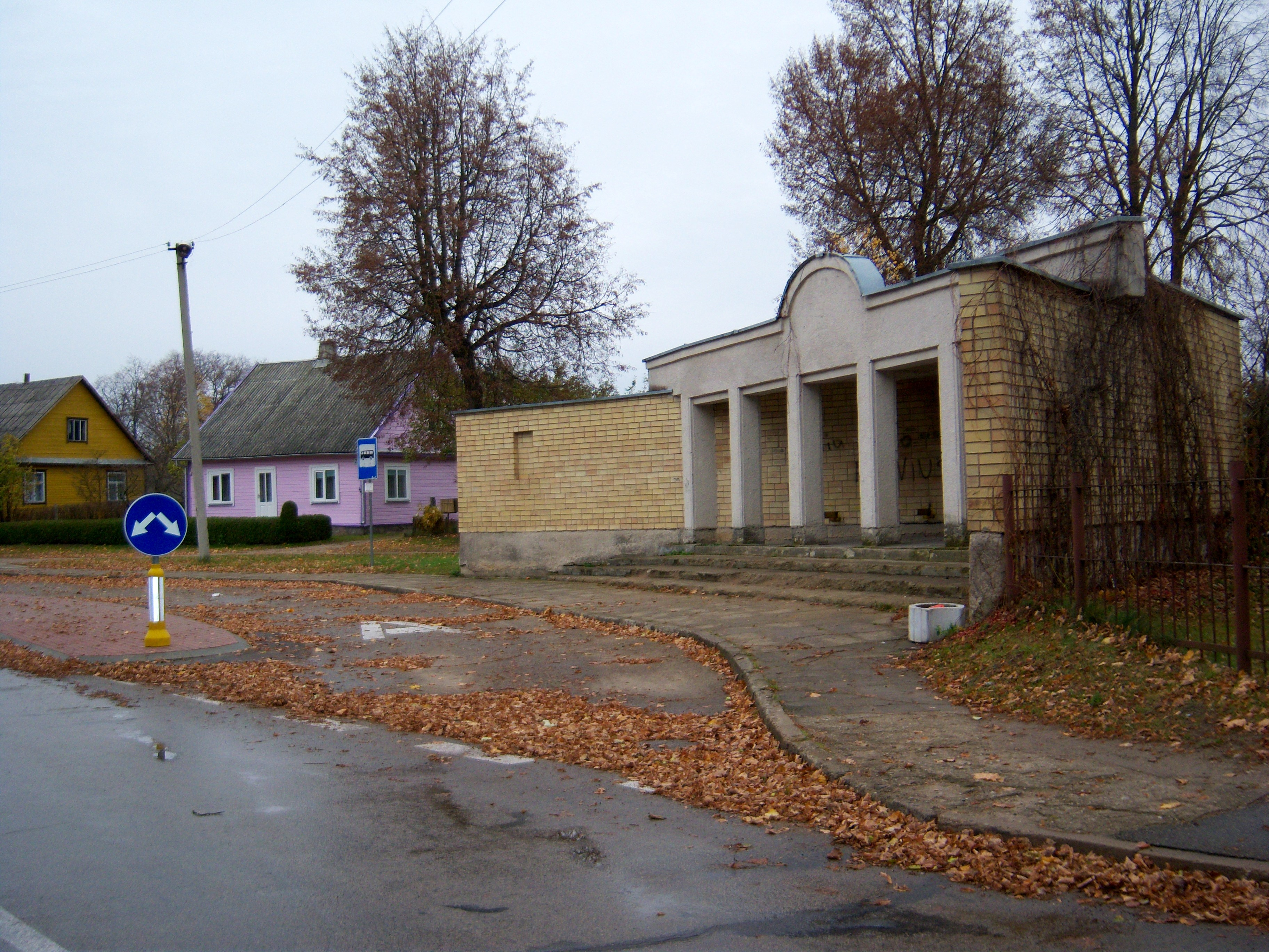 Bus stop, Skapiškis, Kupiškis District, Lithuania